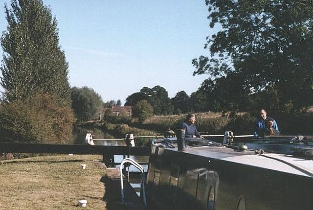 Potters Lock - No.66 - K&A Canal "Pairing up" makes these broad locks easier to work and saves water, an important consideration as much of the canal water used in locking at higher levels is back pumped at some expense.